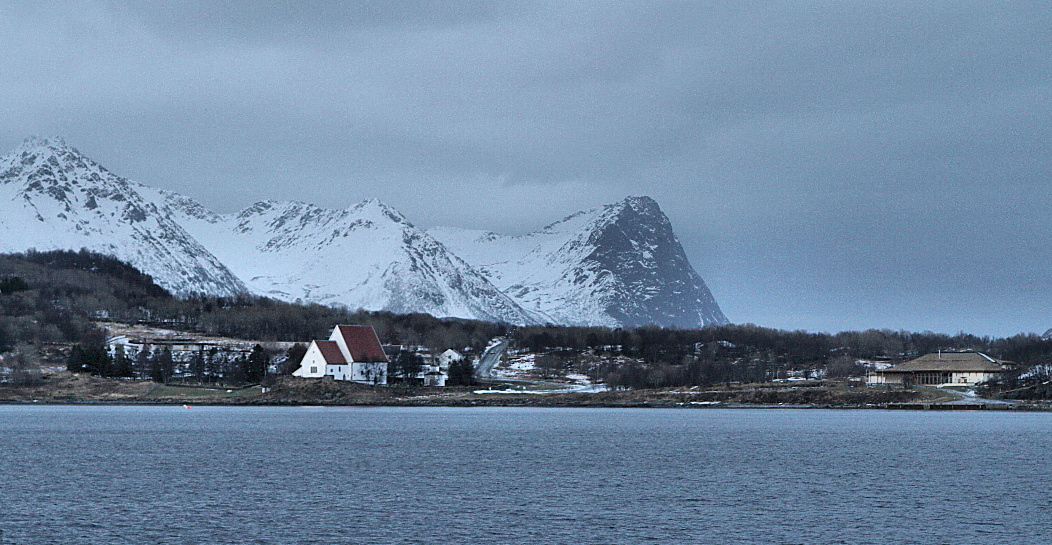 Trondenes church near Harstad, Norway. Winter 2005 - 2006